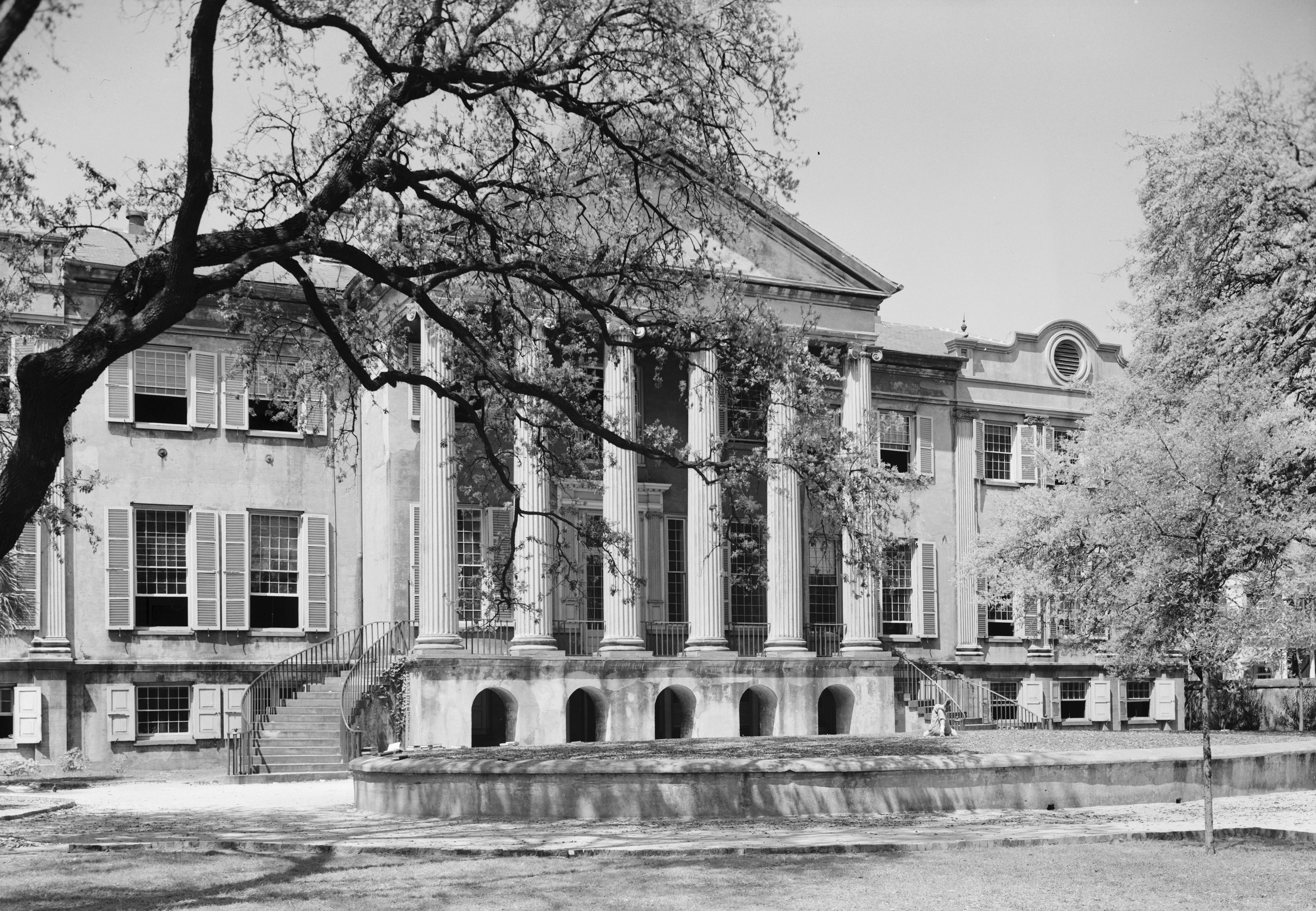 College of Charleston, 66 George Street, Charleston, Charleston, SC.